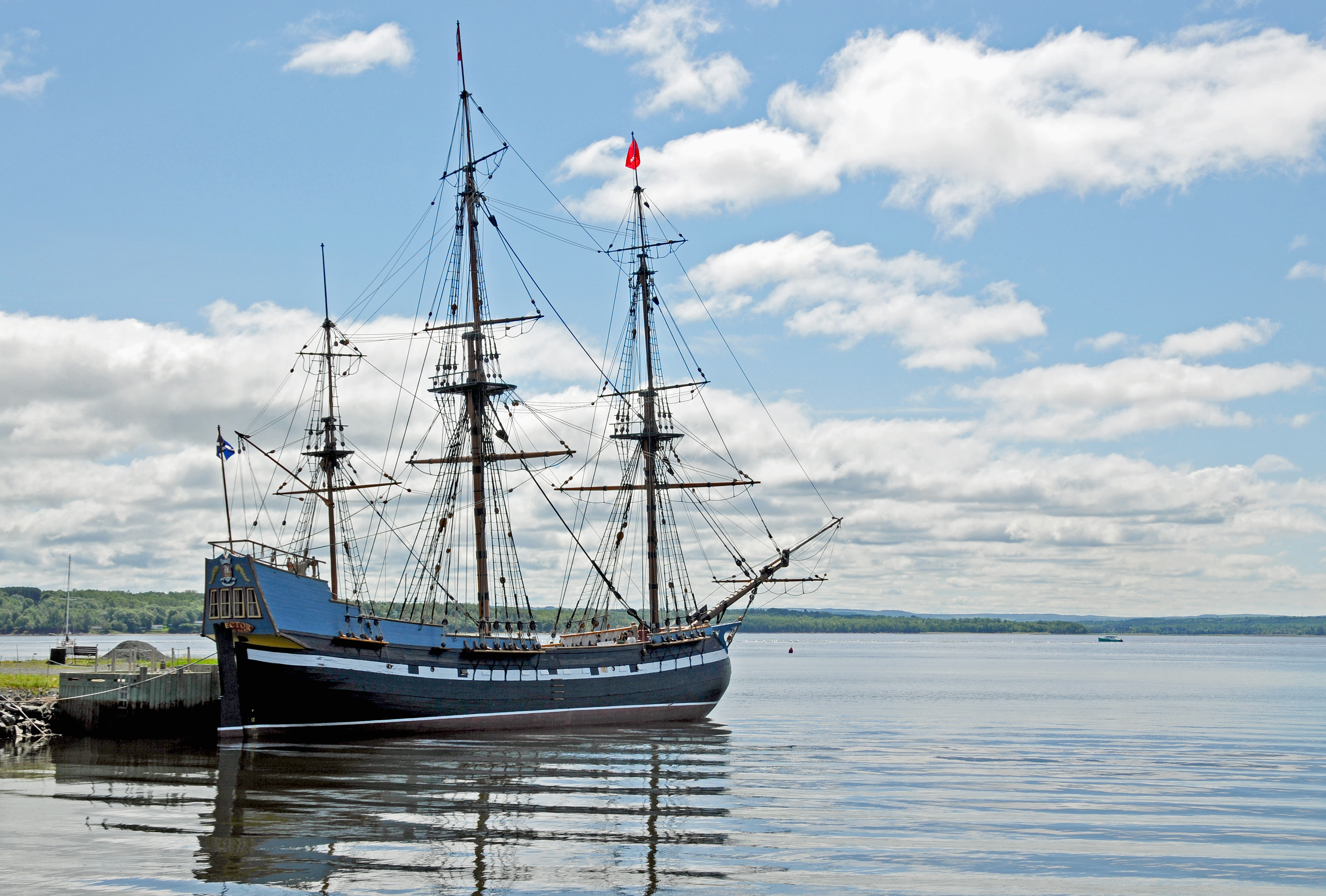 The 2000 replica of the ship Hector, 2011.